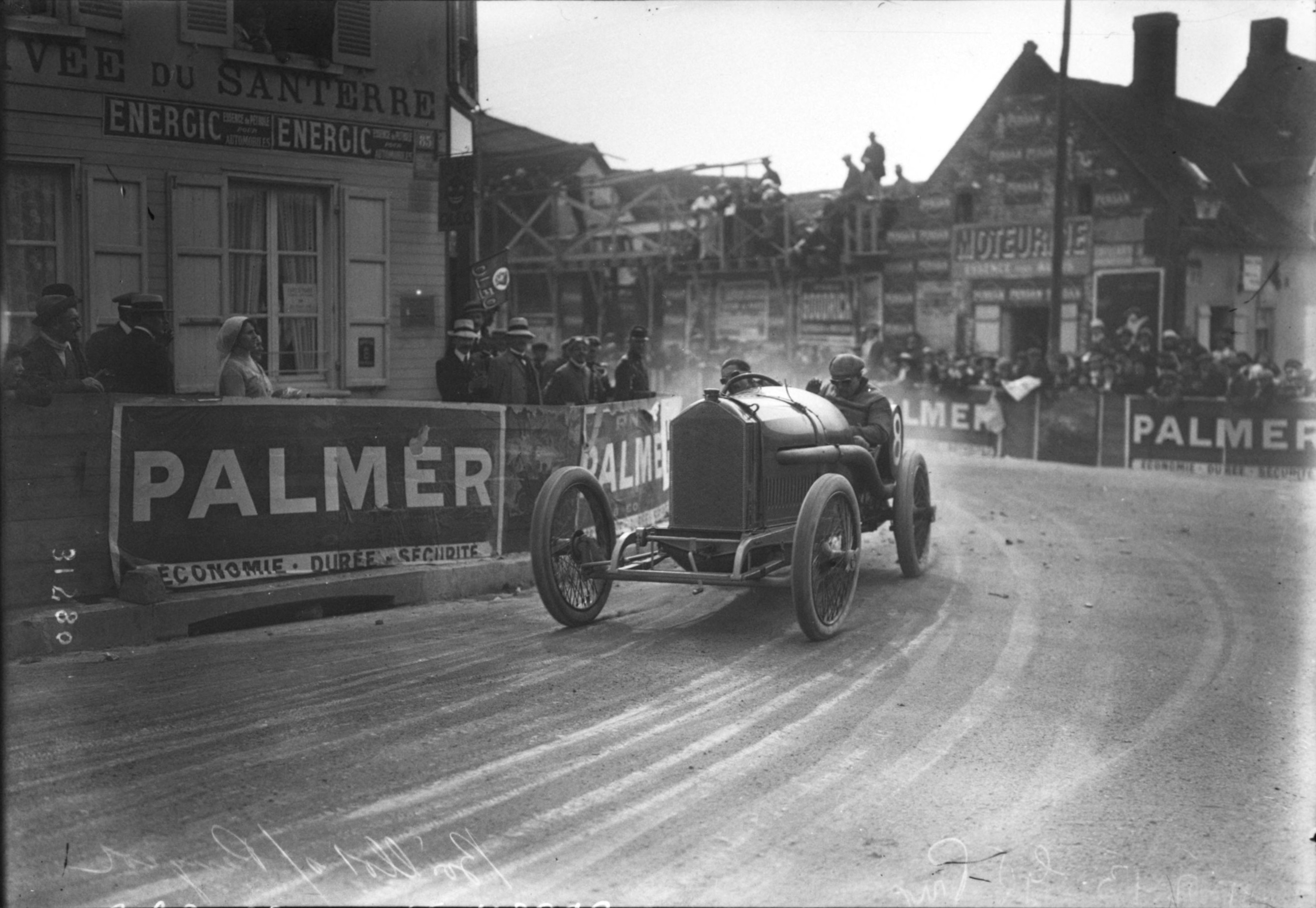 Georges Boillot at the 1913 French Grand Prix